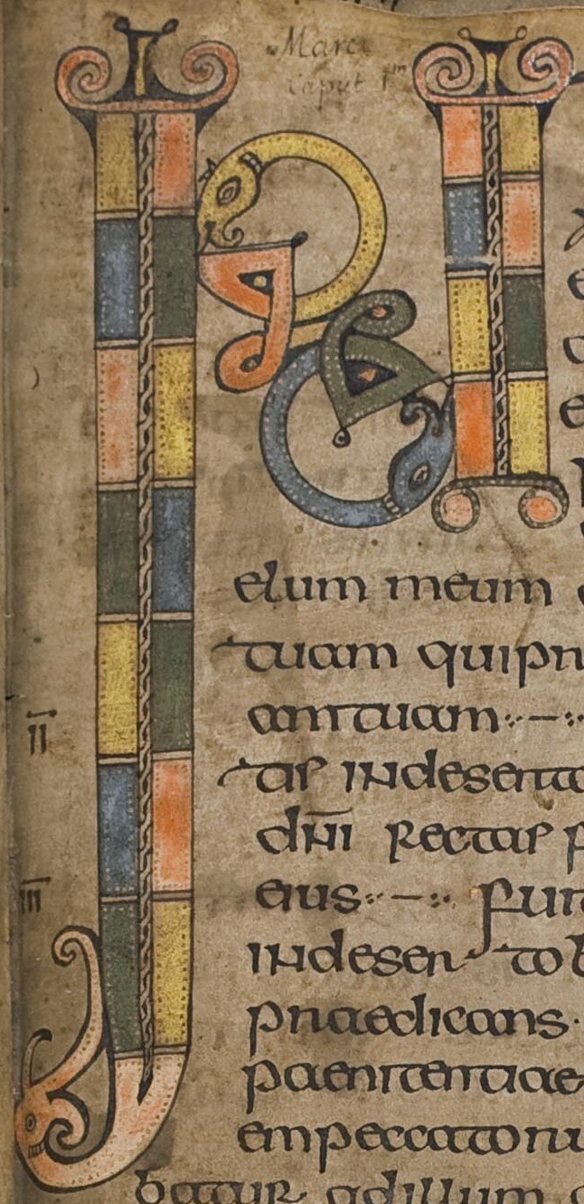 Folio 2r of the Gospel Book Fragment